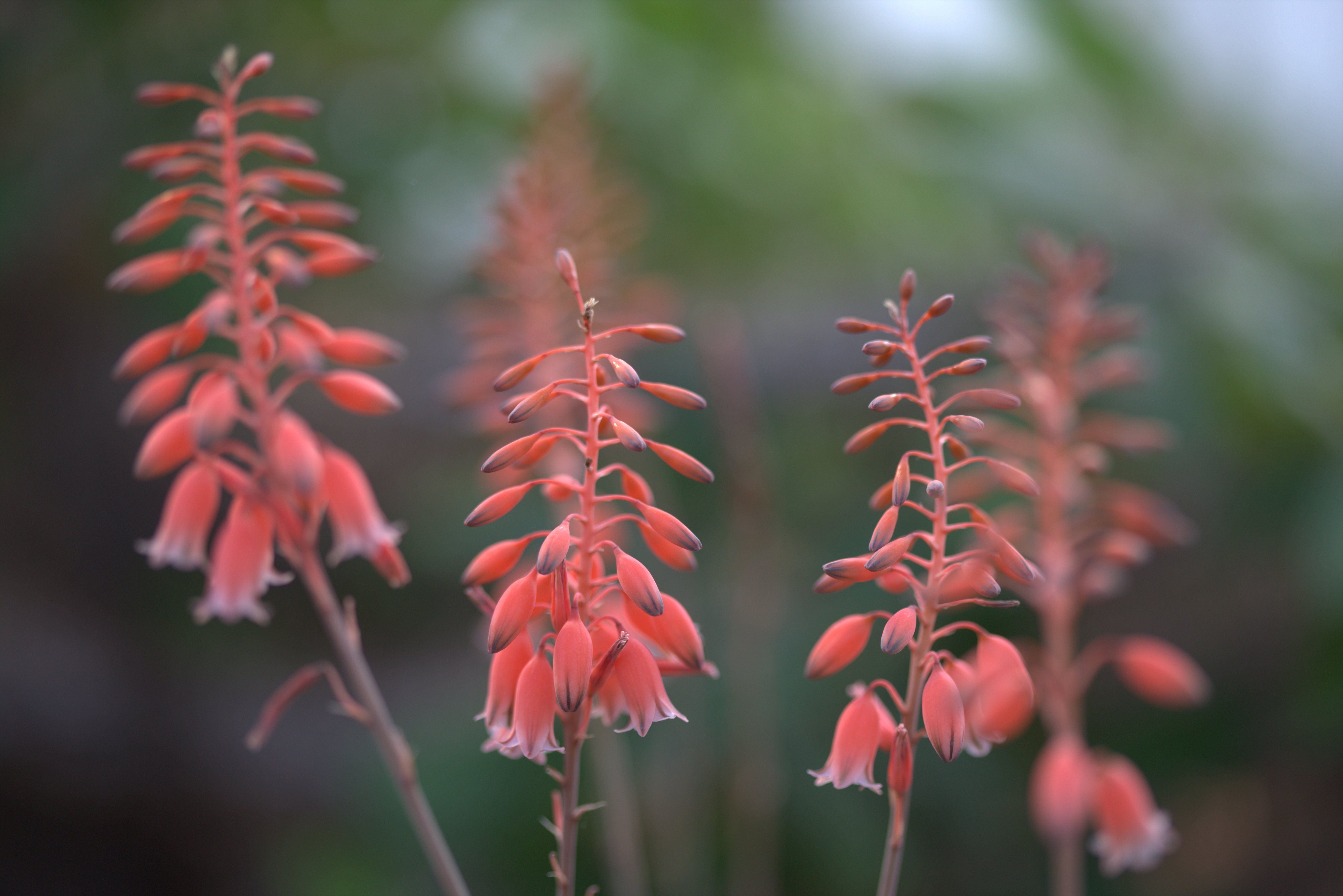 Aloe bellatula in Gothenburg botanical garden. Plant id: 1966-3881 u G -- Frankfurt